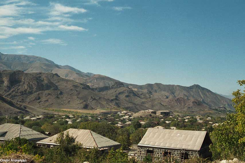 Malishka, Armenia